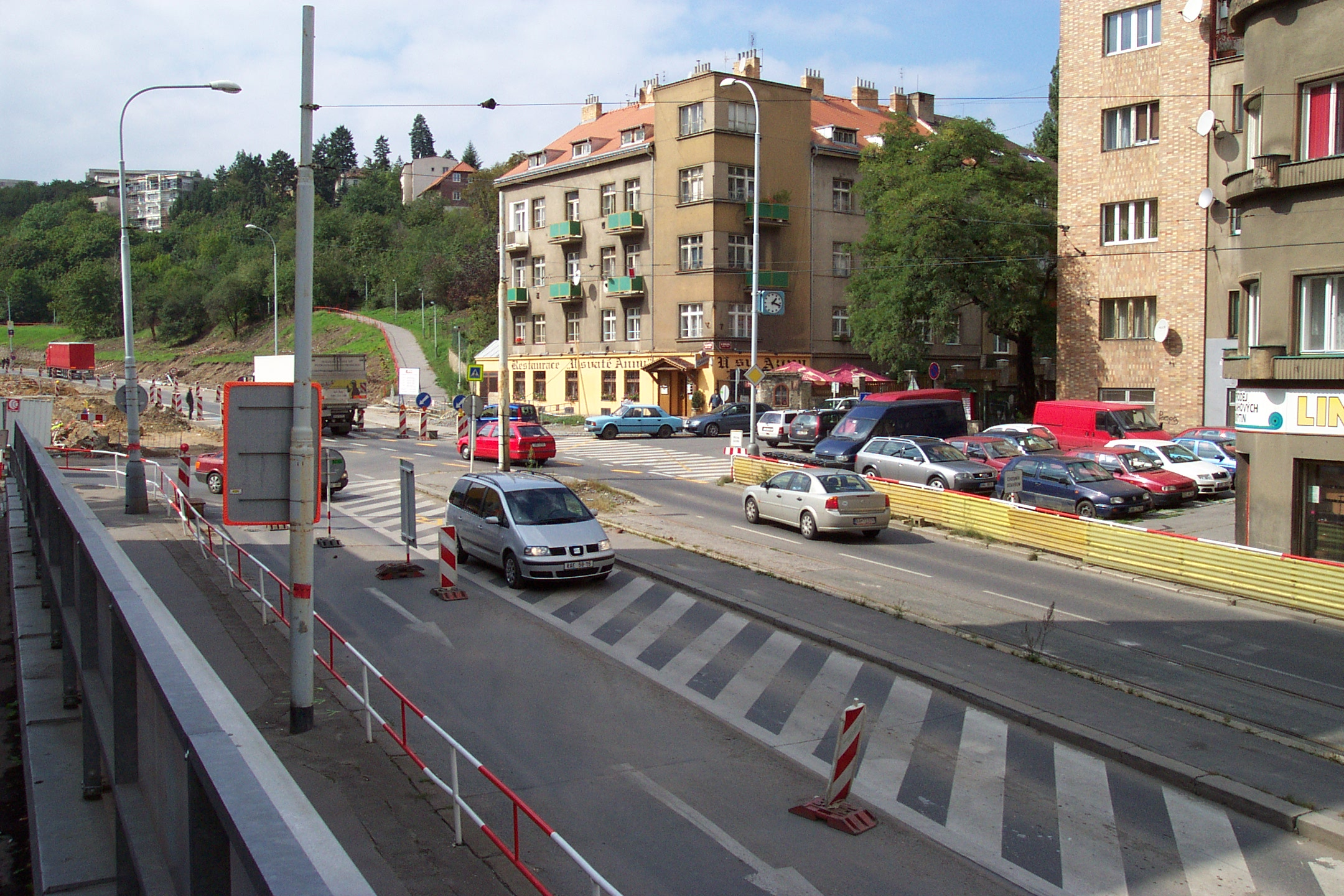 Tram track Laurová - Radlická (Prague,CZ), under construction